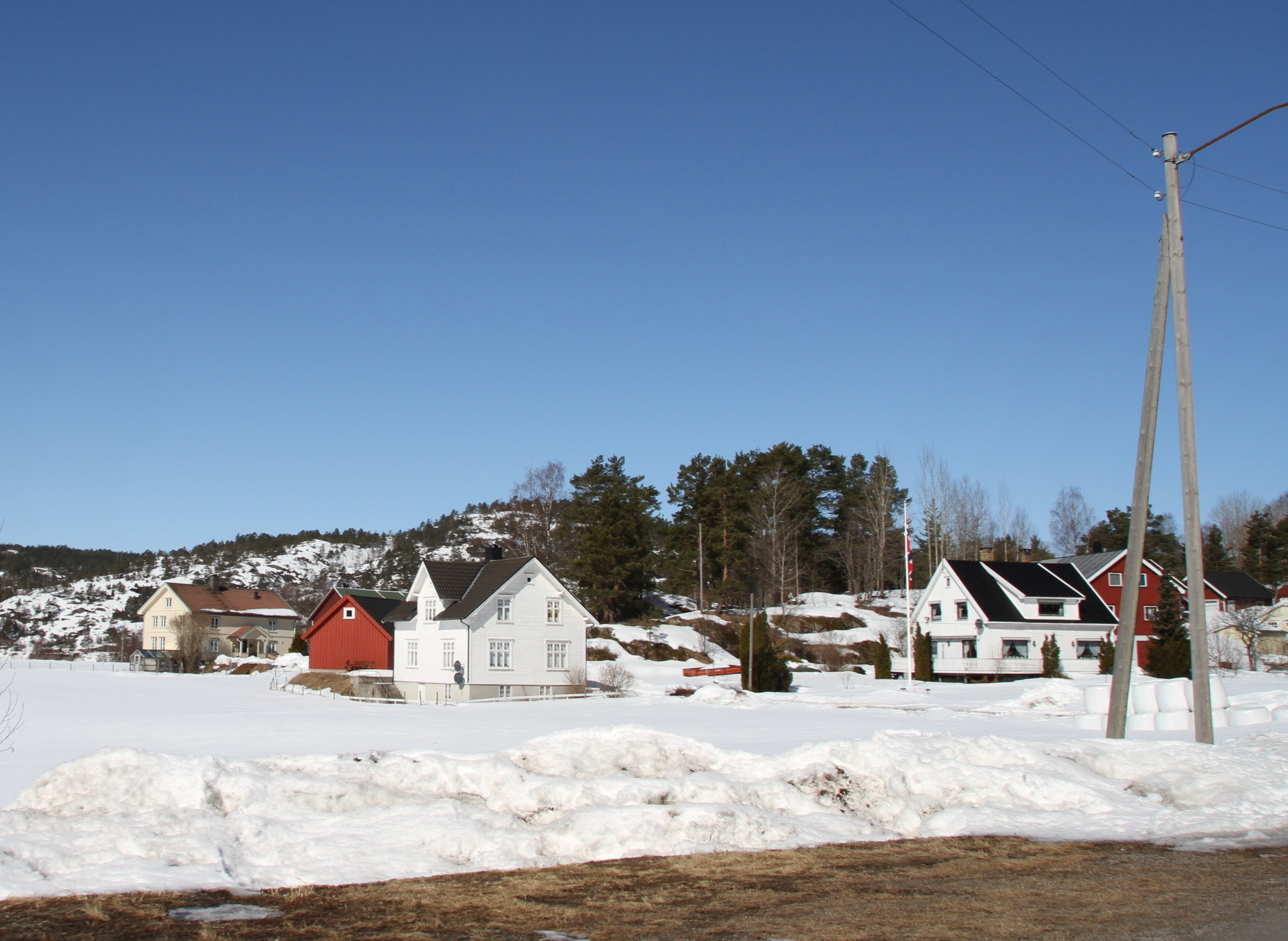 Image from the Herefoss area (formerly municipality), in northern Birkenes municipality and along the Herefossfjorden lake on the Tovdalselva river, Aust-Agder county (Norway).